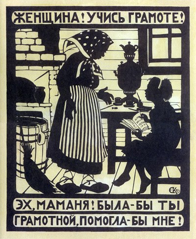 Soviet poster by Elizaveta Kruglikova advocating female literacy. The top section reads: "Woman! Learn to read and write!" At the bottom: "Oh, mommy! If you were literate, you could help me!"